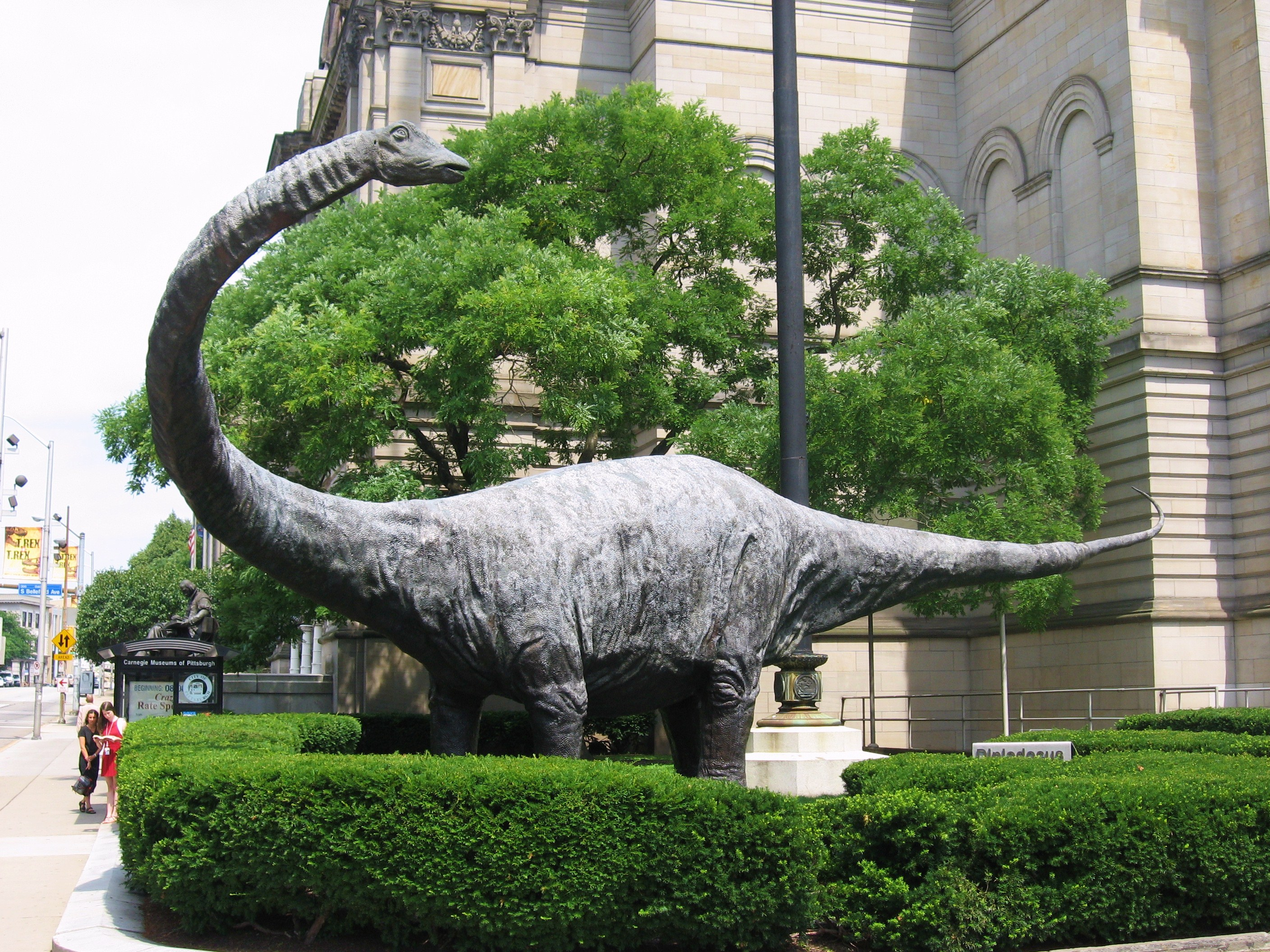 Dippy, a statute outside the Carnegie Museum of Natural History in Oakland, Pittsburgh.40°26′36.7″N 79°57′5.3″W / 40.443528°N 79.951472°W